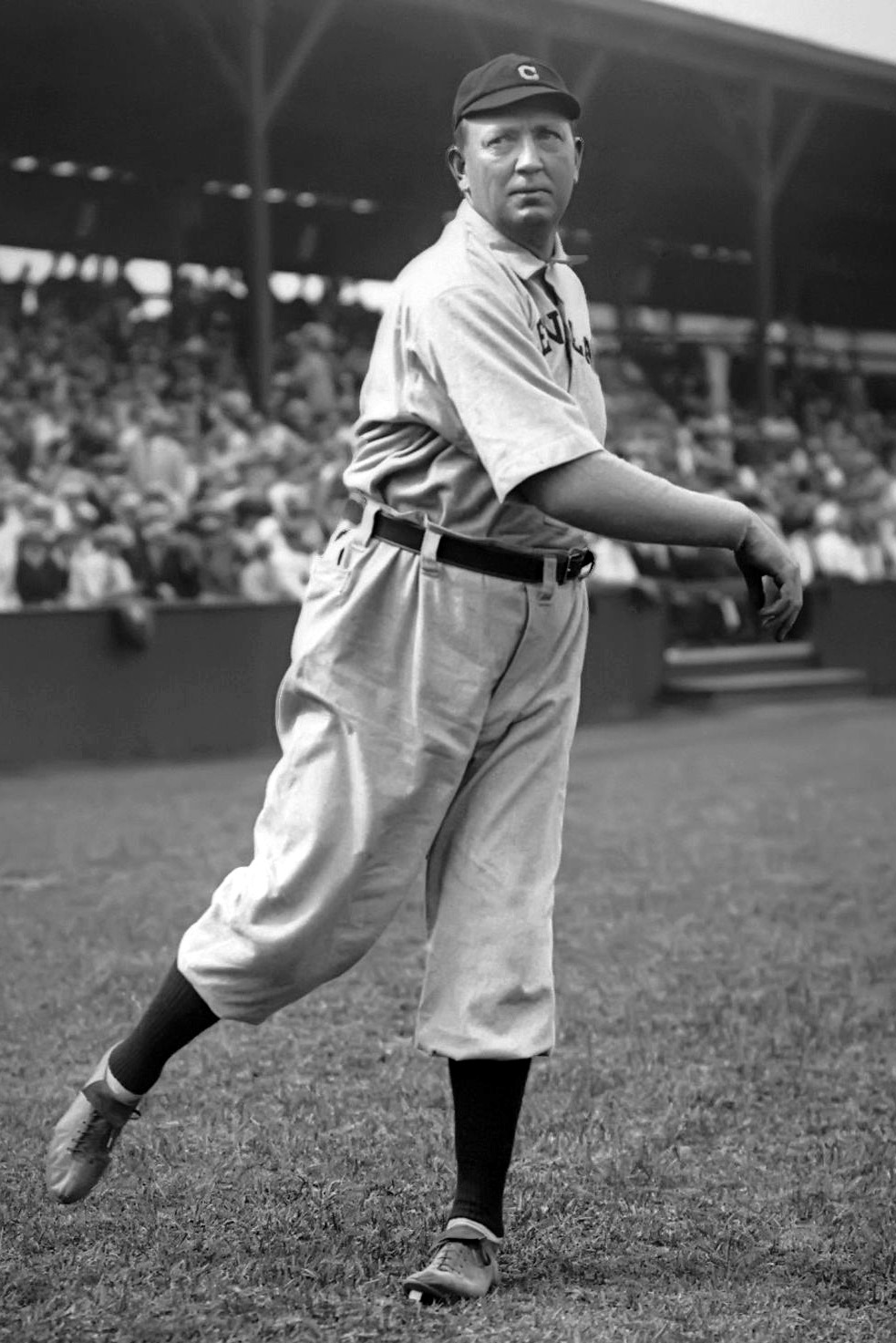 Cy Young with the Cleveland Naps during the final season of his Hall of Fame career